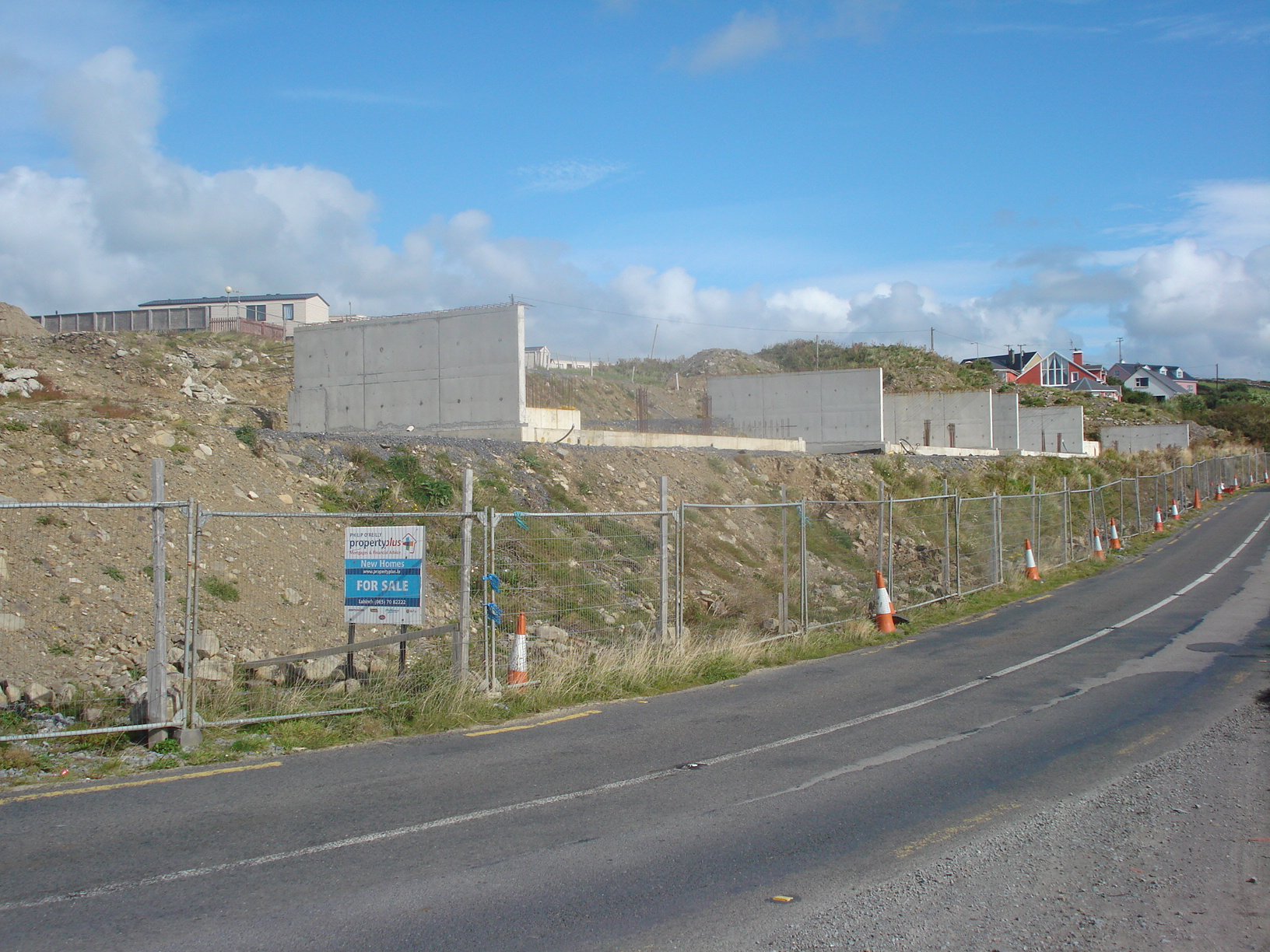 Building project near Lahinch, County Clare. Unfinished due to credit crunch / Financial crisis 2007-2009